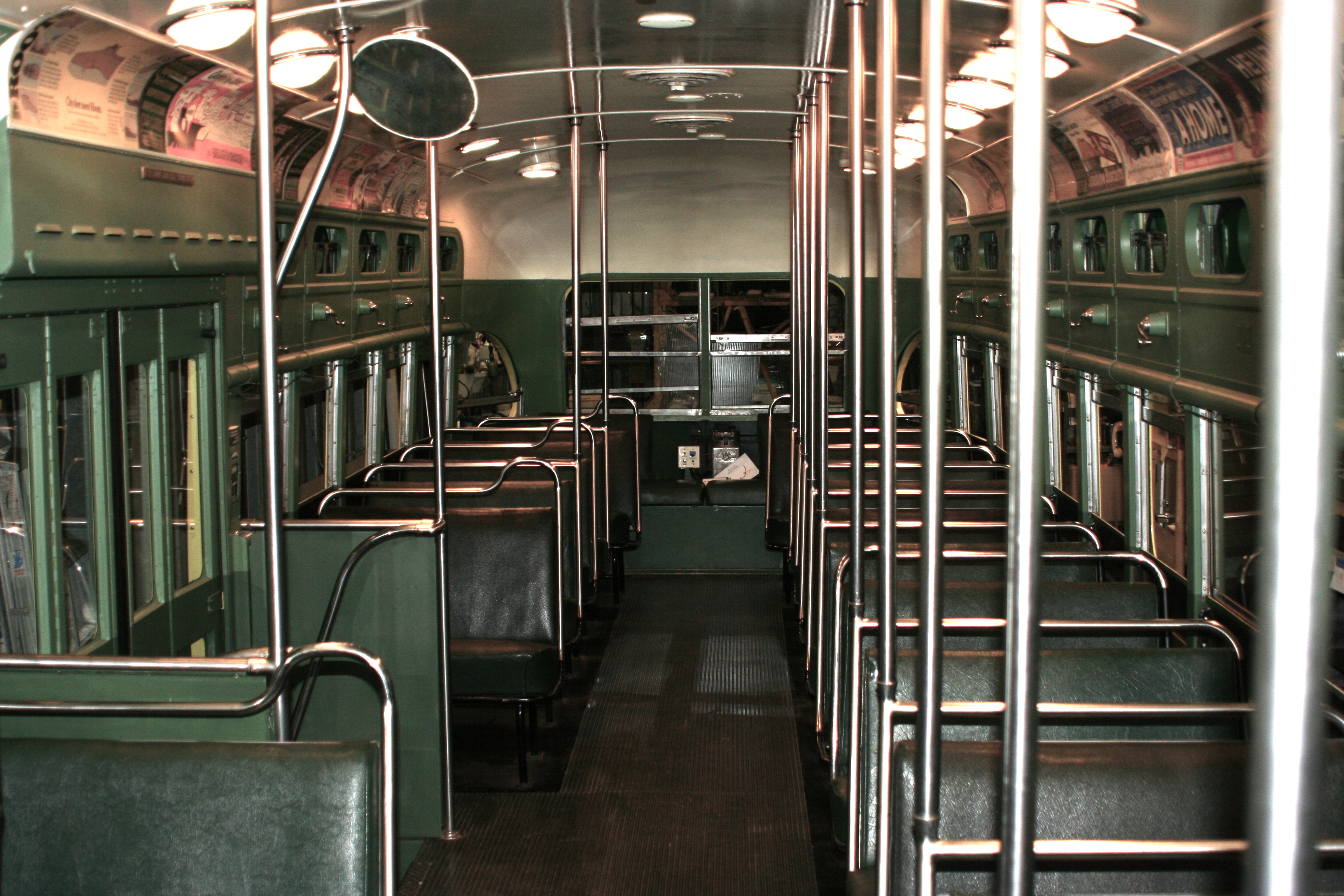 Interior of TCRT PCC Streetcar #322 owned and operated by the Minnesota Streetcar Museum